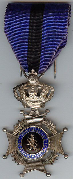 Knight of the Order of Leopold II (Belgium)